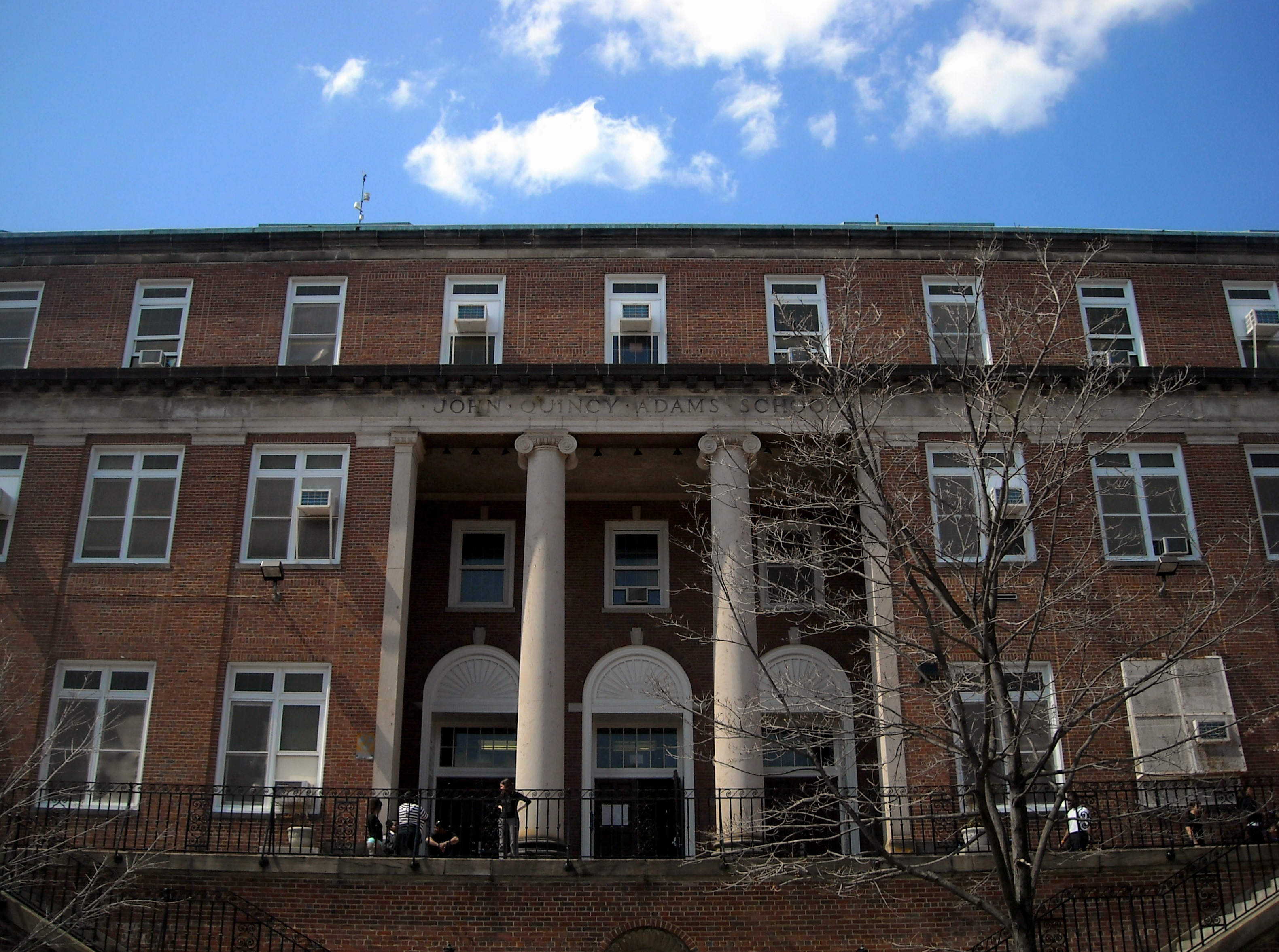 The John Quincy Adams Campus of the Oyster-Adams Bilingual School, formerly John Quincy Adams Elementary School (more commonly known as Adams Elementary School) located at 2020 19th Street, NW in the Adams Morgan neighborhood of Washington, D.C. Designed by architect Albert L. Harris in 1928, the Colonial Revival building is a contributing property to the Washington Heights Historic District. Its 2009 property value is $18,244,130.